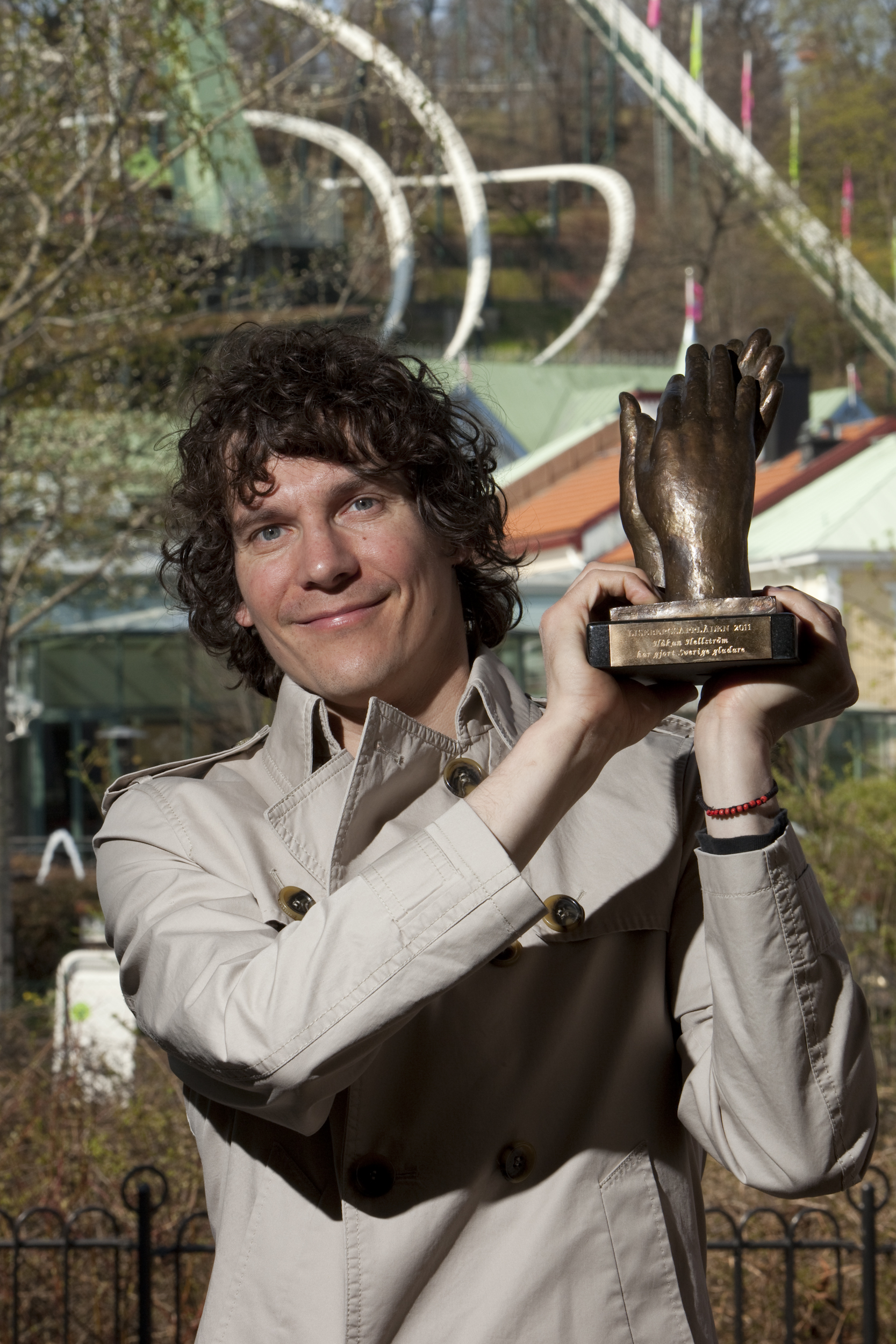 Swedish artist Håkan Hellström accepting Lisebergsapplåden 2011